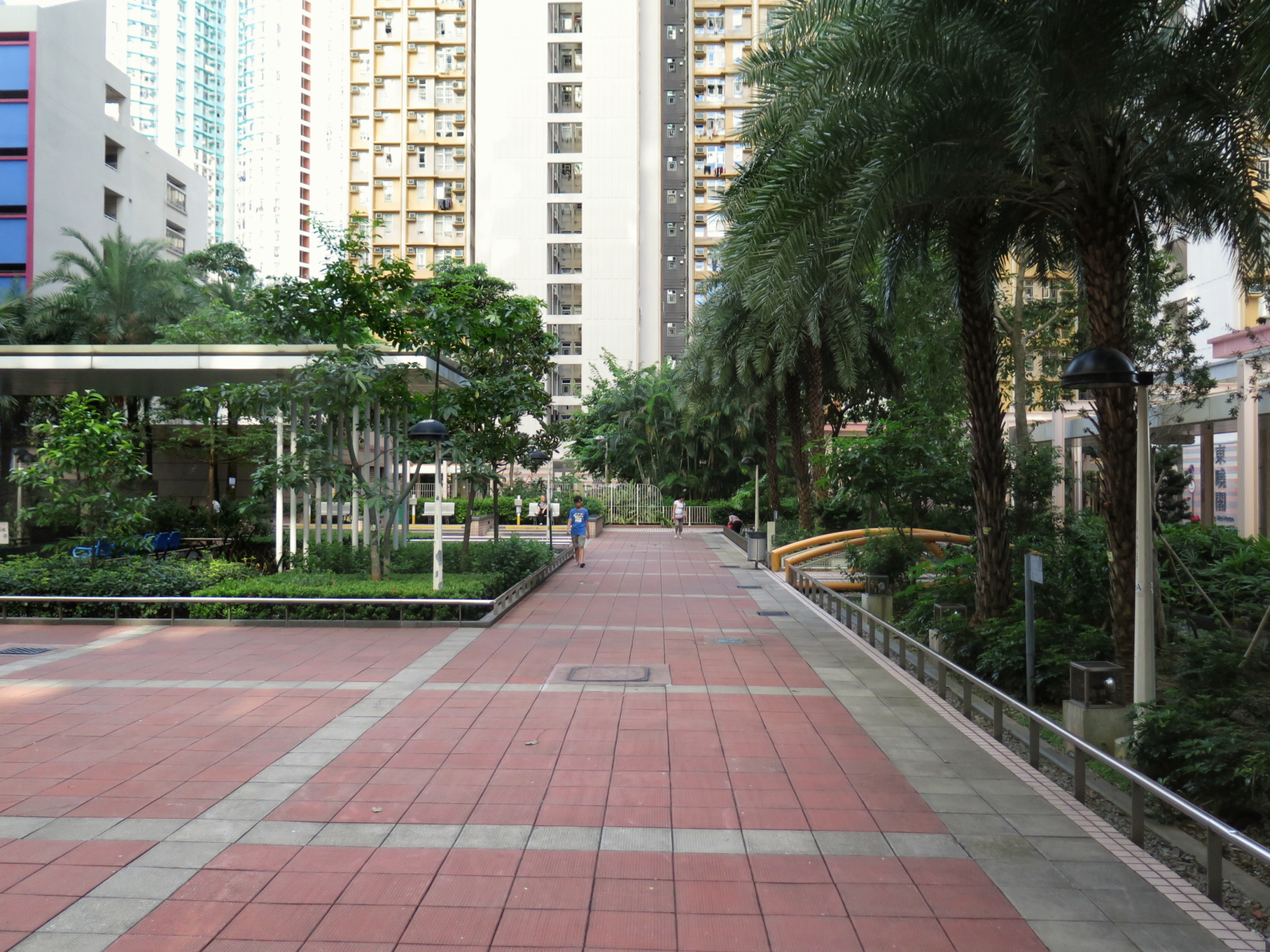 Tung Yuk Court Landscape area